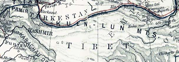 Mediaeval trade routes in central Asia. Modified map based on Sheherd Mediaeval Commerce (1923/first edition 1911)